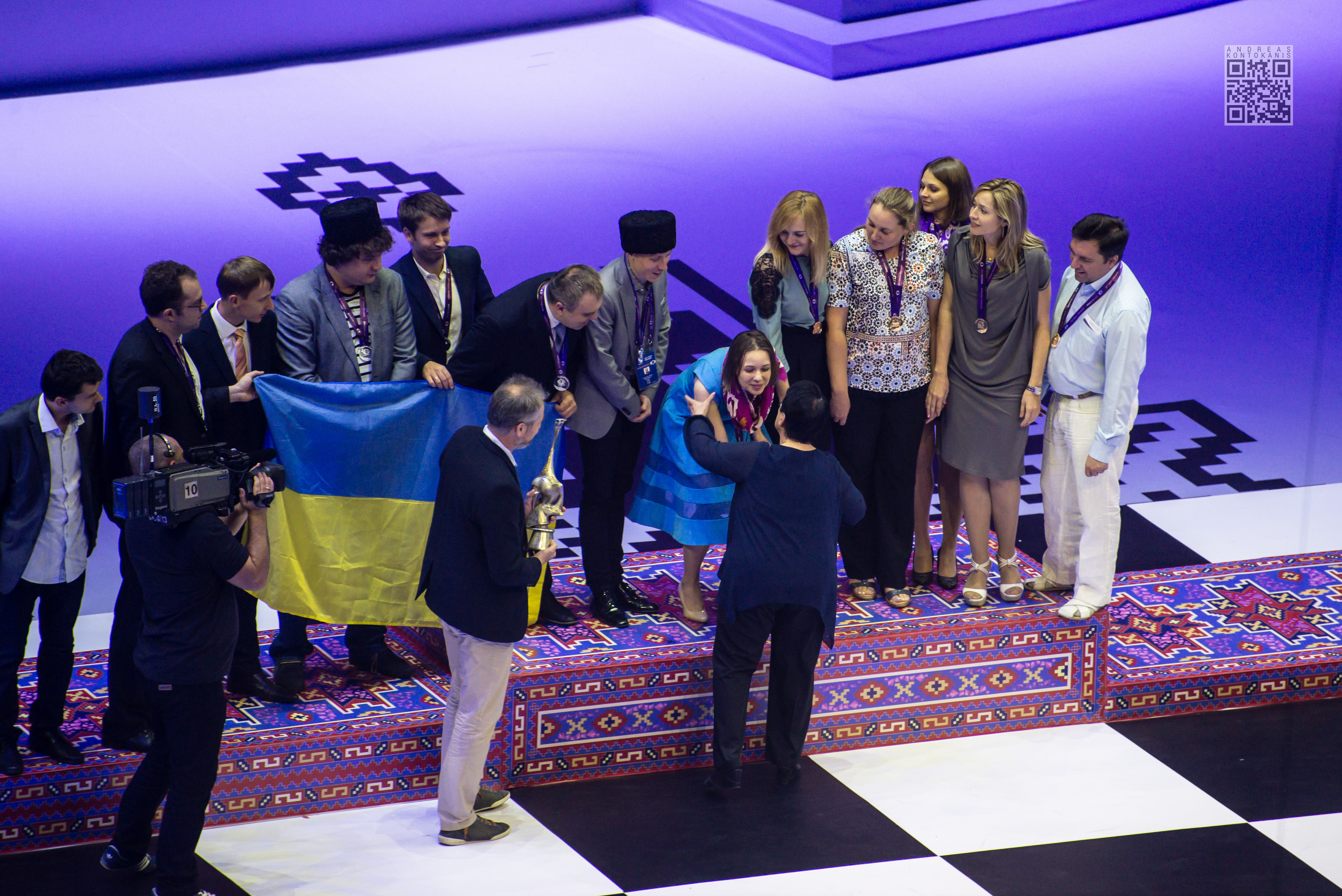 Muzychuk Mariya receives congratulations from Nona Gaprindashvili